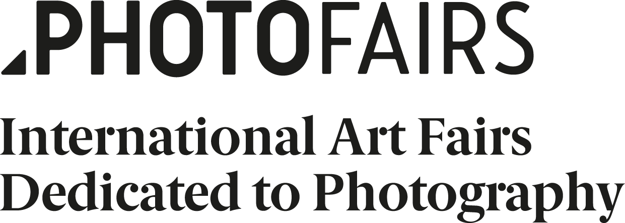 PHOTOFAIRS logo